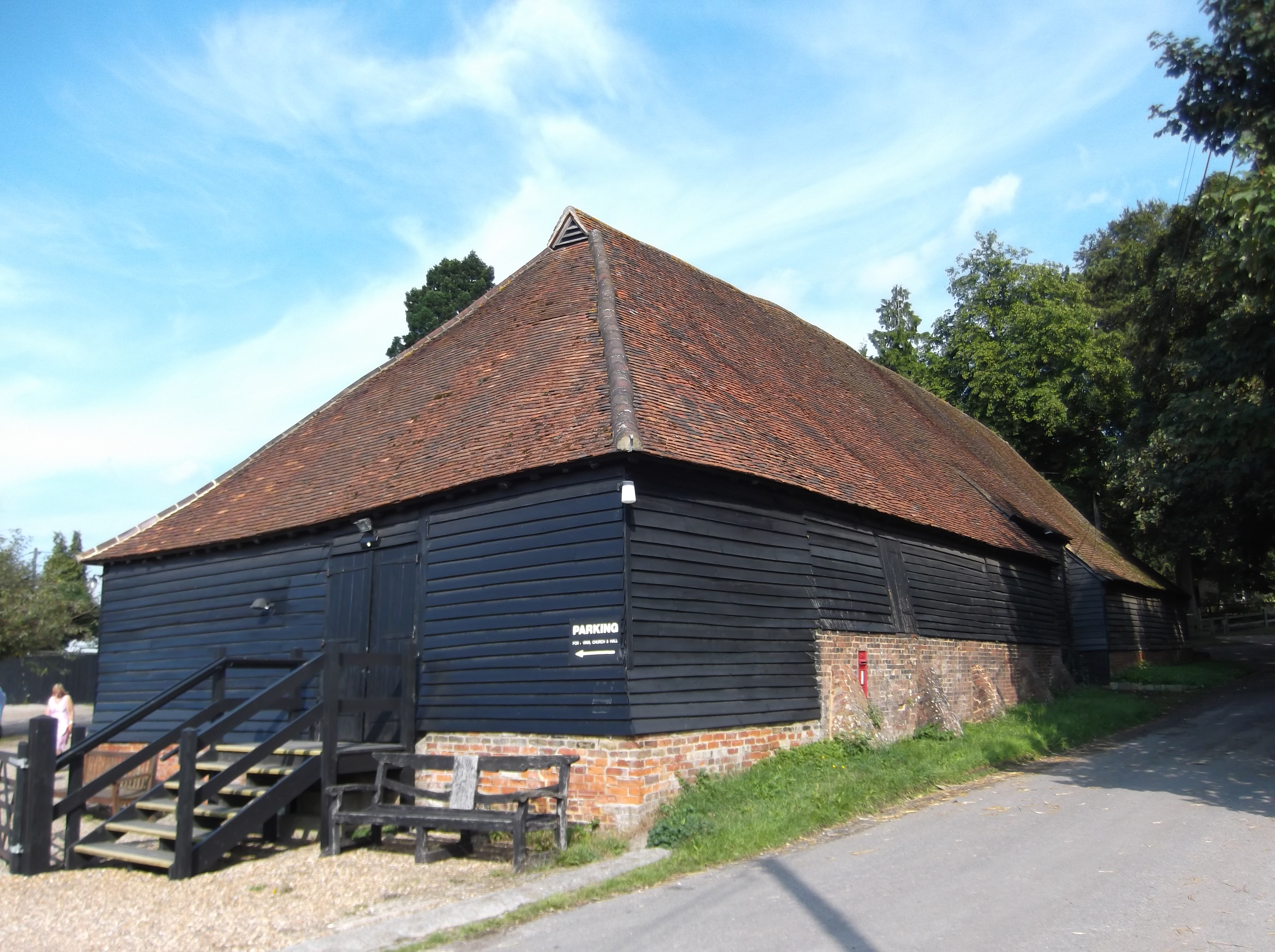 The Great Barn at Wanborough, a grange of Waverley Abbey, Surrey